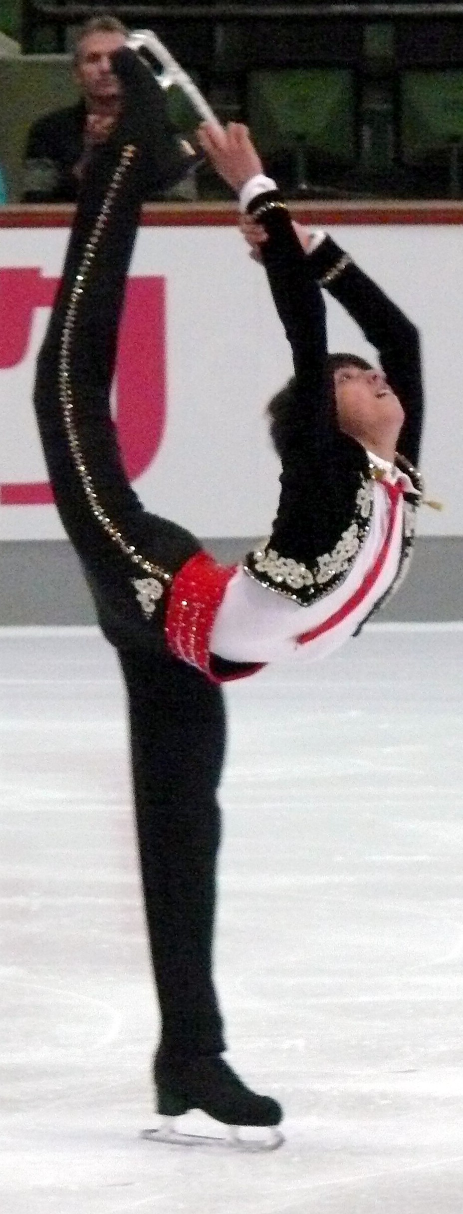 Michael Christian Martinez (PHI) at the free program at the Nebelhorn Trophy in Obrstdorf / Baviaria / Germany. He performed a Biellman spin.